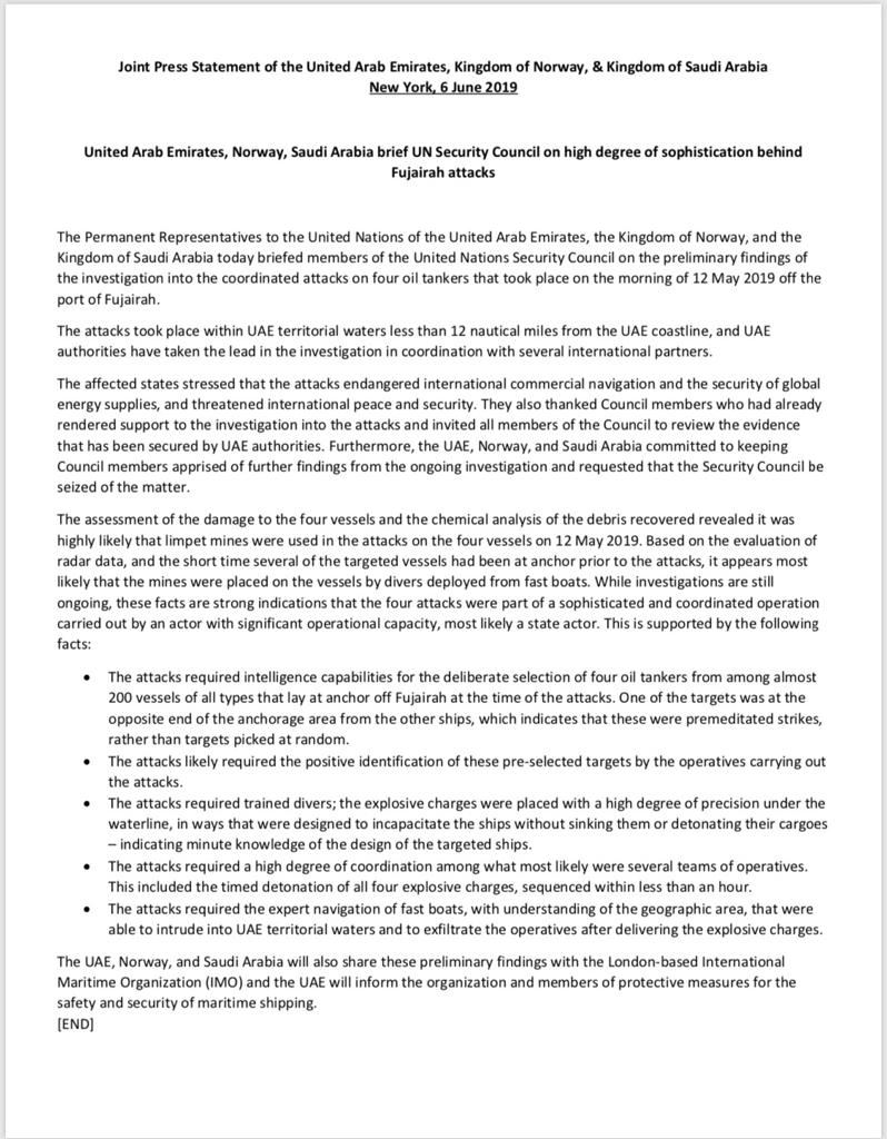 Joint statement by Norway, Saudi Arabia, and the United Arab Emirates to the United Nations Security Council on the attack on commercial ships off the coast of Fujairah in the Gulf of Oman.